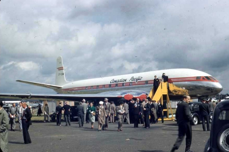 pictionid74075074 - catalogbonnalies0042 - title--de havilland comet 1a canadian pacific cf-cum farnborough air show 1952 - filenamebonnalies0042.tif--Allan Bonnalie Collection---Note: This material may be protected by Copyright Law (Title 17 U.S.C.)--Repository: San Diego Air and Space Museum